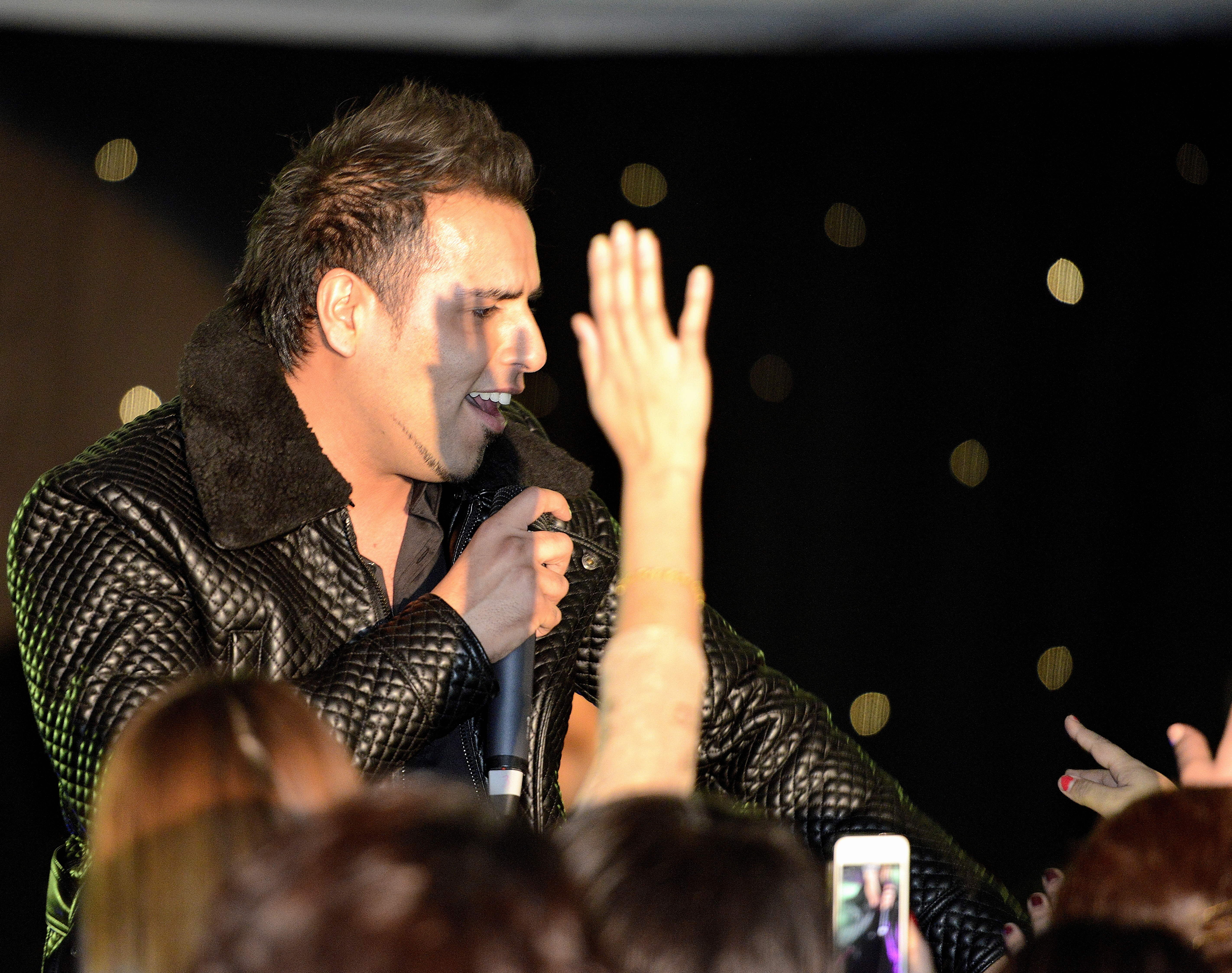 H-Dhami performing in Bradford